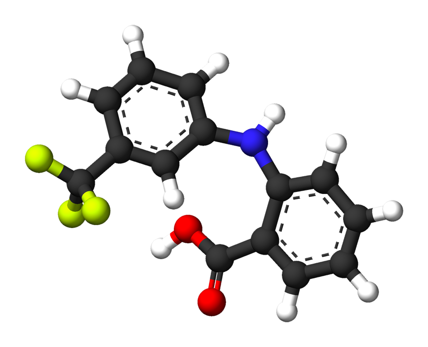 Ball-and-stick model of the flufenamic acid (2-{[3-(Trifluoromethyl)phenyl]amino}benzoic acid) molecule, C14H10F3NO2.